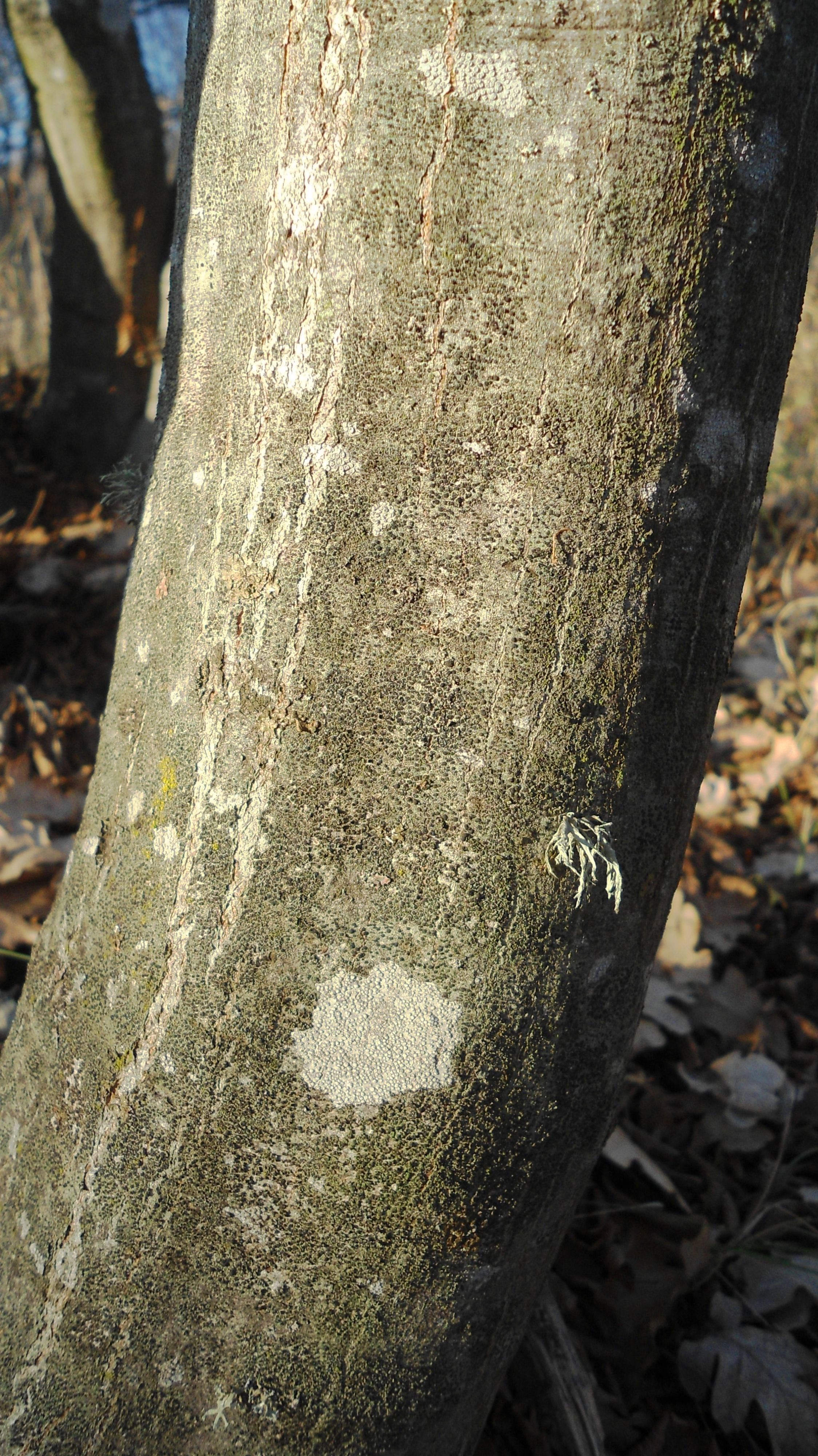 Carpinus orientalis shrub, part of a small group oriental hornbeams in area northern of the village of Izgrev, Yambol district, Bulgaria.